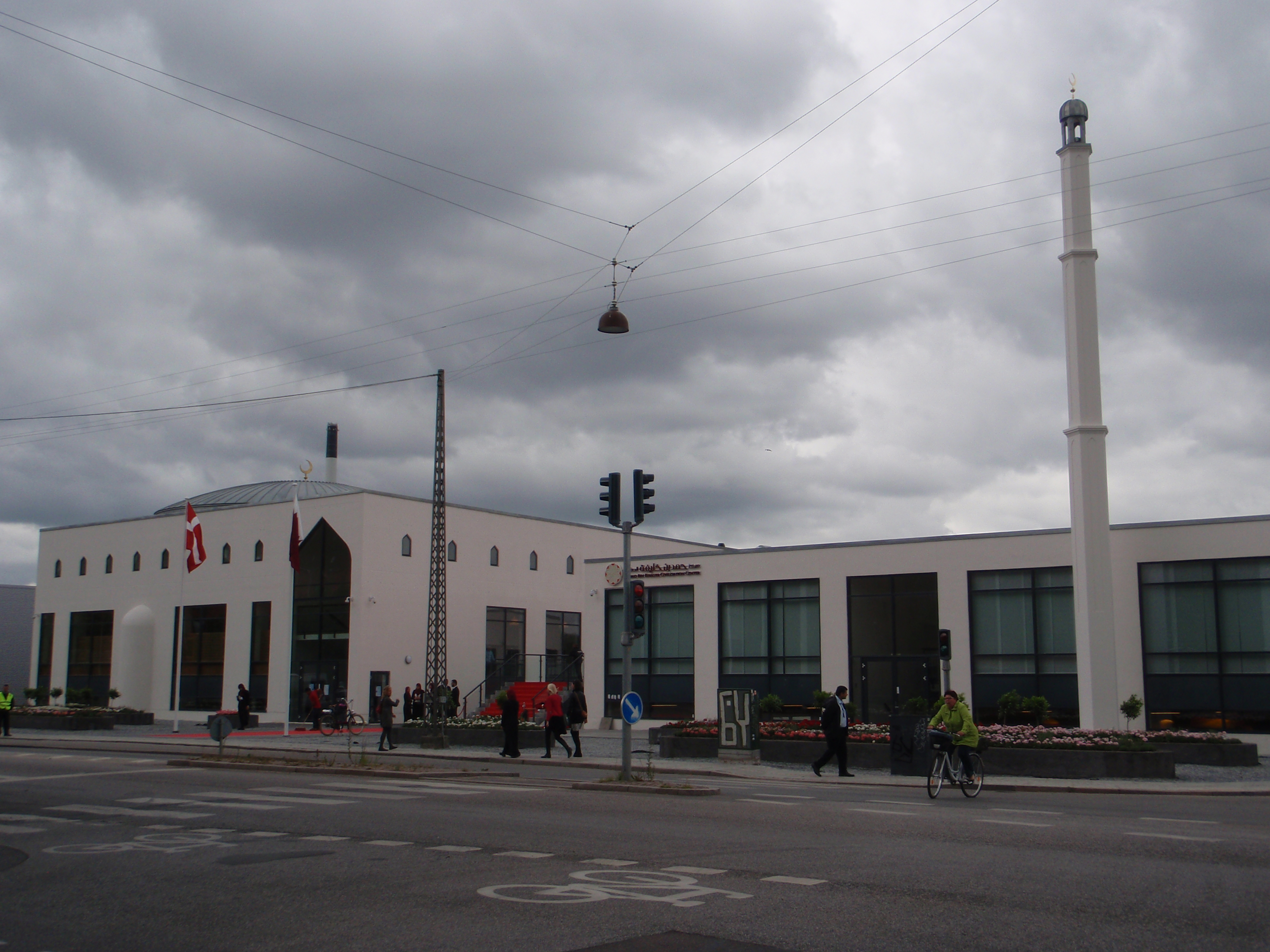 Hamad Bin Khalifa Civilisation Center in Nørrebro, Copenhagen